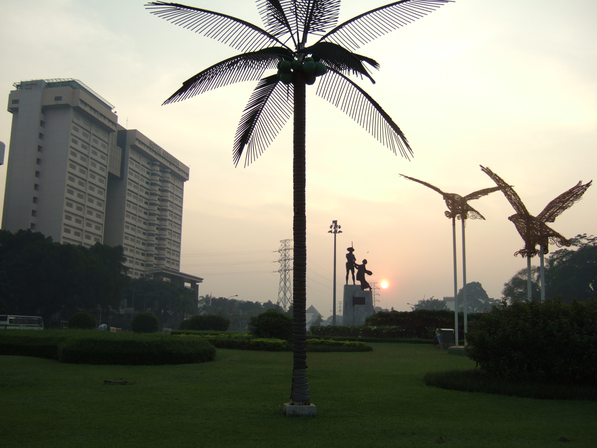 Aryaduta Hotel, Menteng Prapatan, Jakarta and Tugu Pak Tani